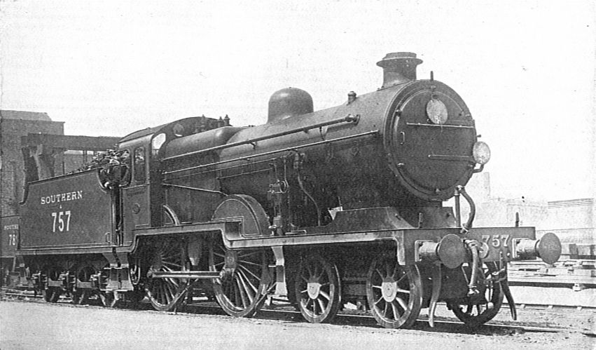 Typical British 4-4-0 Express Engines for Medium-weight Trains 2-Cylinder "L1" Class Locomotive, Southern Railway